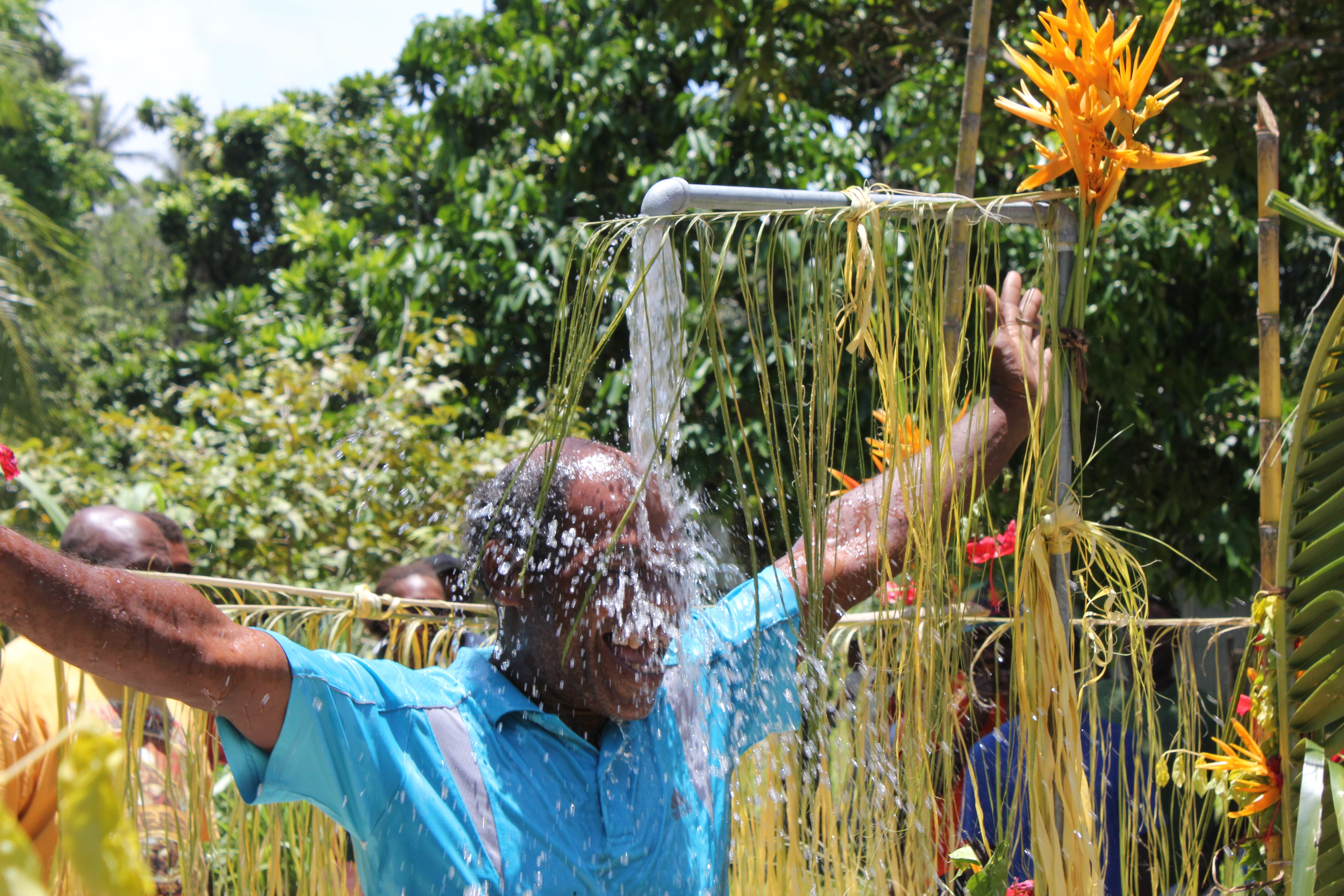 Mark Havilegu celebrates the opening of a water supply project in Isabel Province, Solomon Islands, October 2013. The project is one of 10 funded in the province by Australia through the Solomon Islands Ministry of Health’s rural water, sanitation and hygiene program.